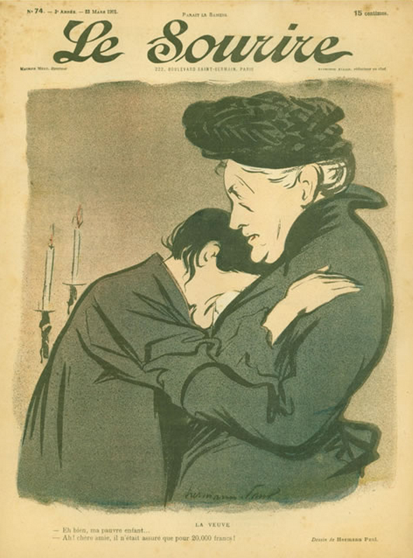 Cover of Le Sourire designed by Hermann-Paul, issue March 23th, 1901 : La veuve - Eh bien, ma pauvre enfant... - Ah ! chère amie, il n'était assuré que pour 20.000 francs !